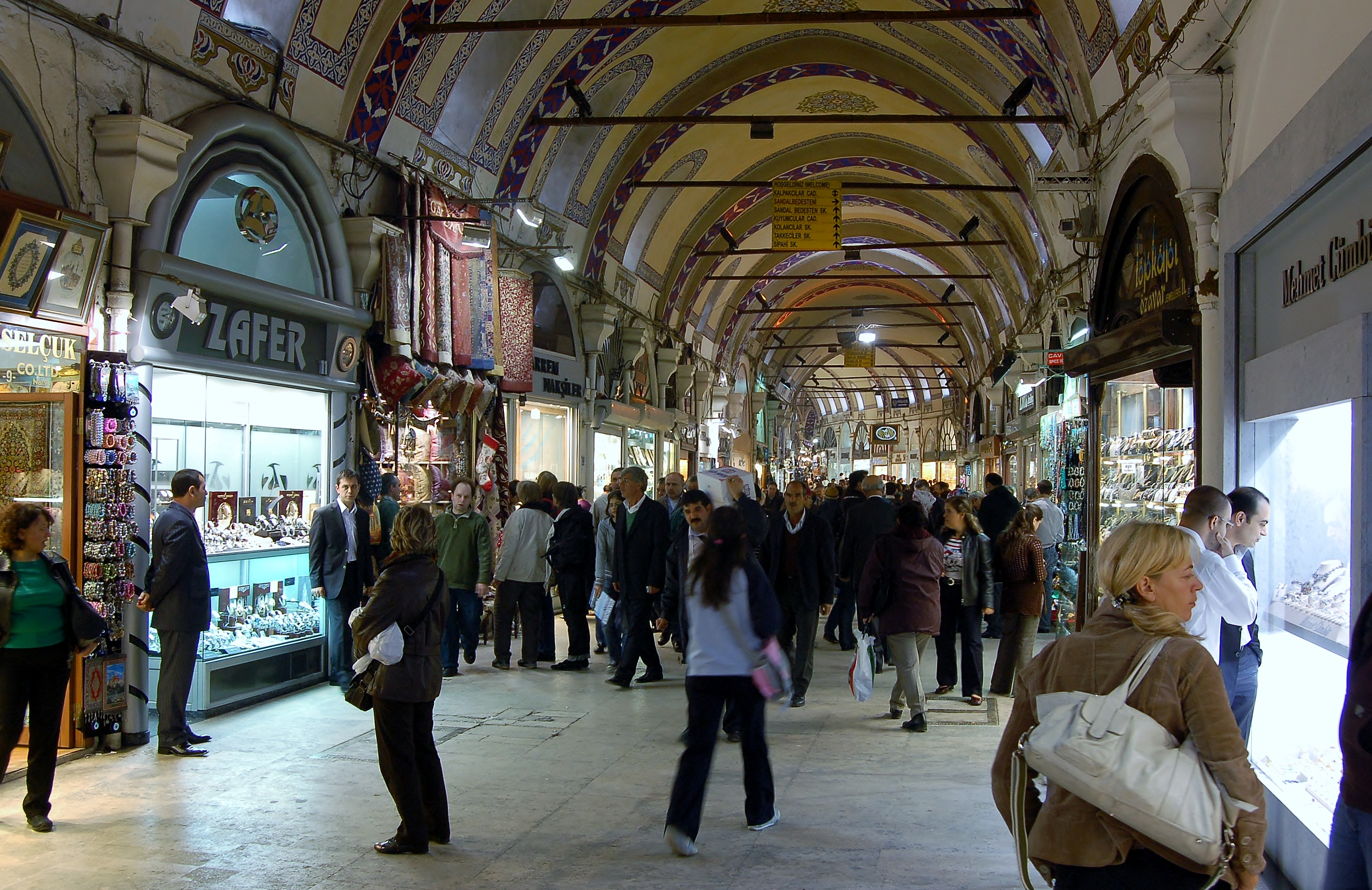 View of the Grand Bazaar, Istanbul.